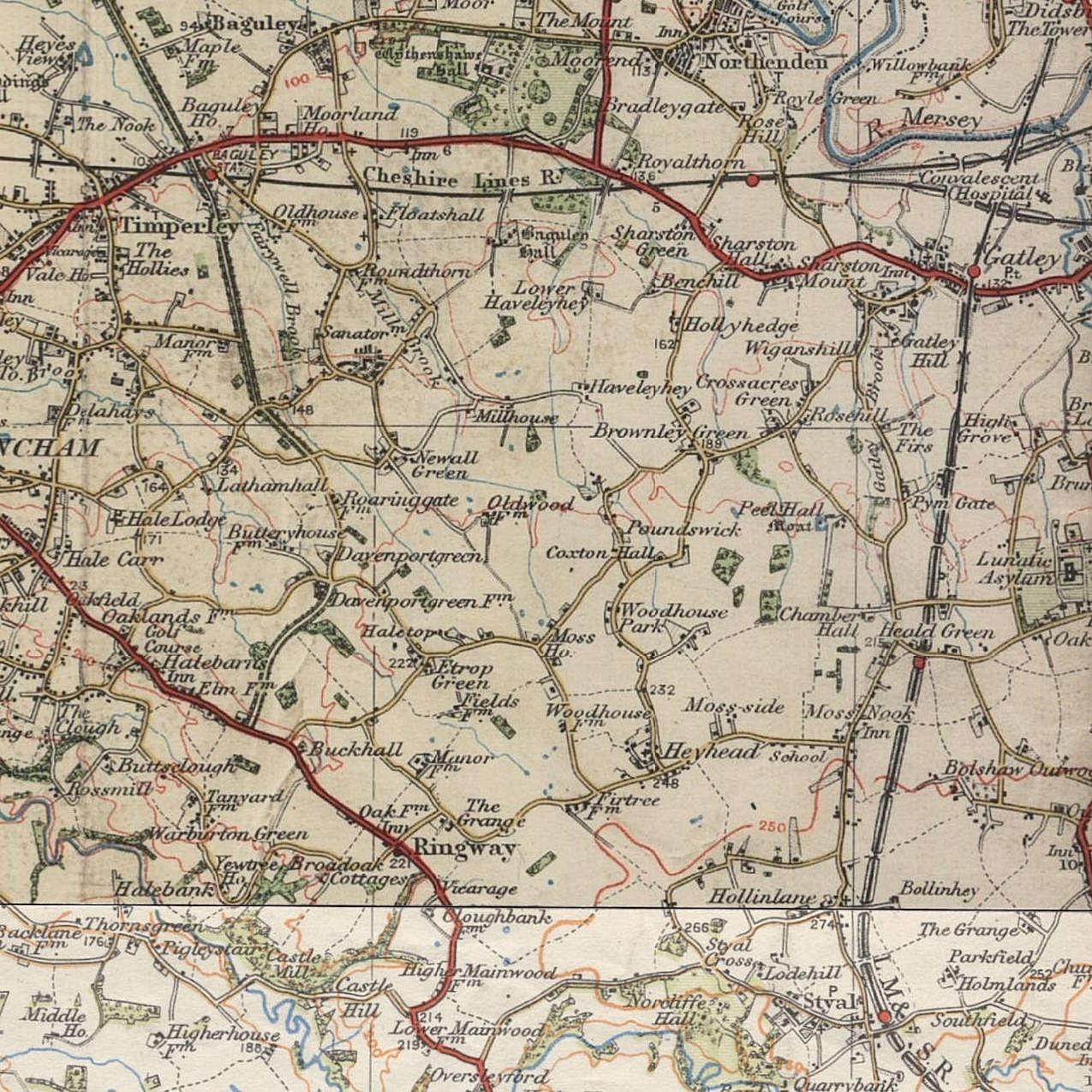 Old (around 1925 to 1945) Ordnance Survey map of Wythenshawe and Manchester Airport area